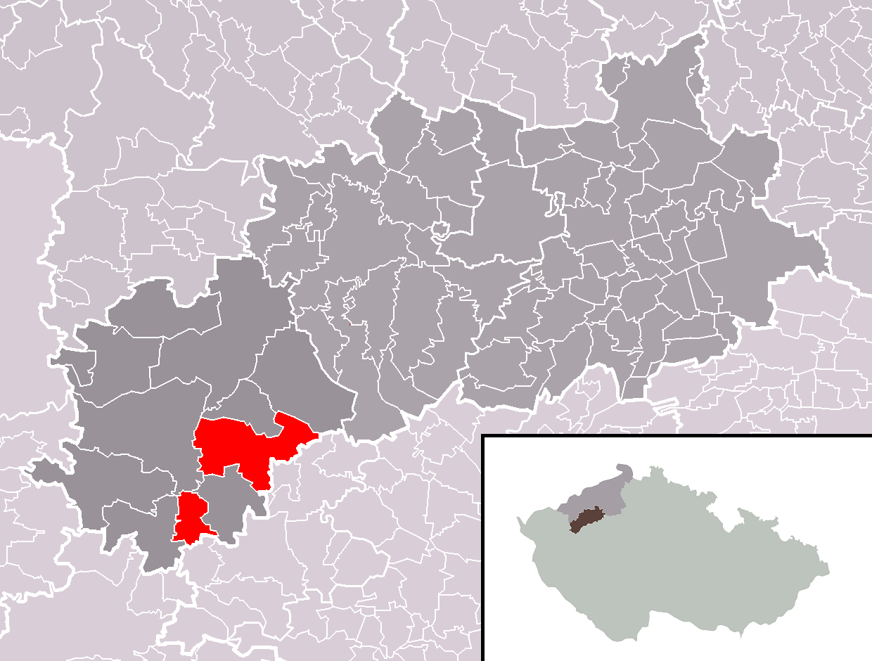 Location of Kryry town within Louny District and administrative area of Žatec as a Municipality with Extended Competence.